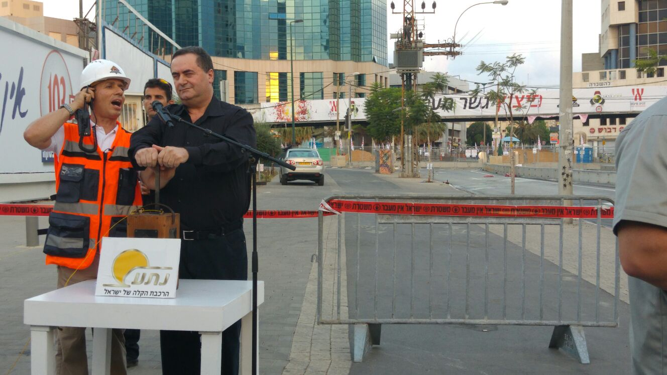 Maariv bridge demolition